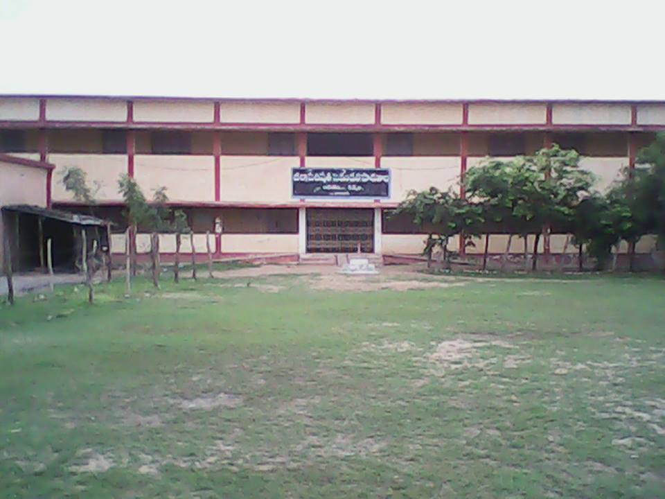 Zilla Parishath High School in Awadam